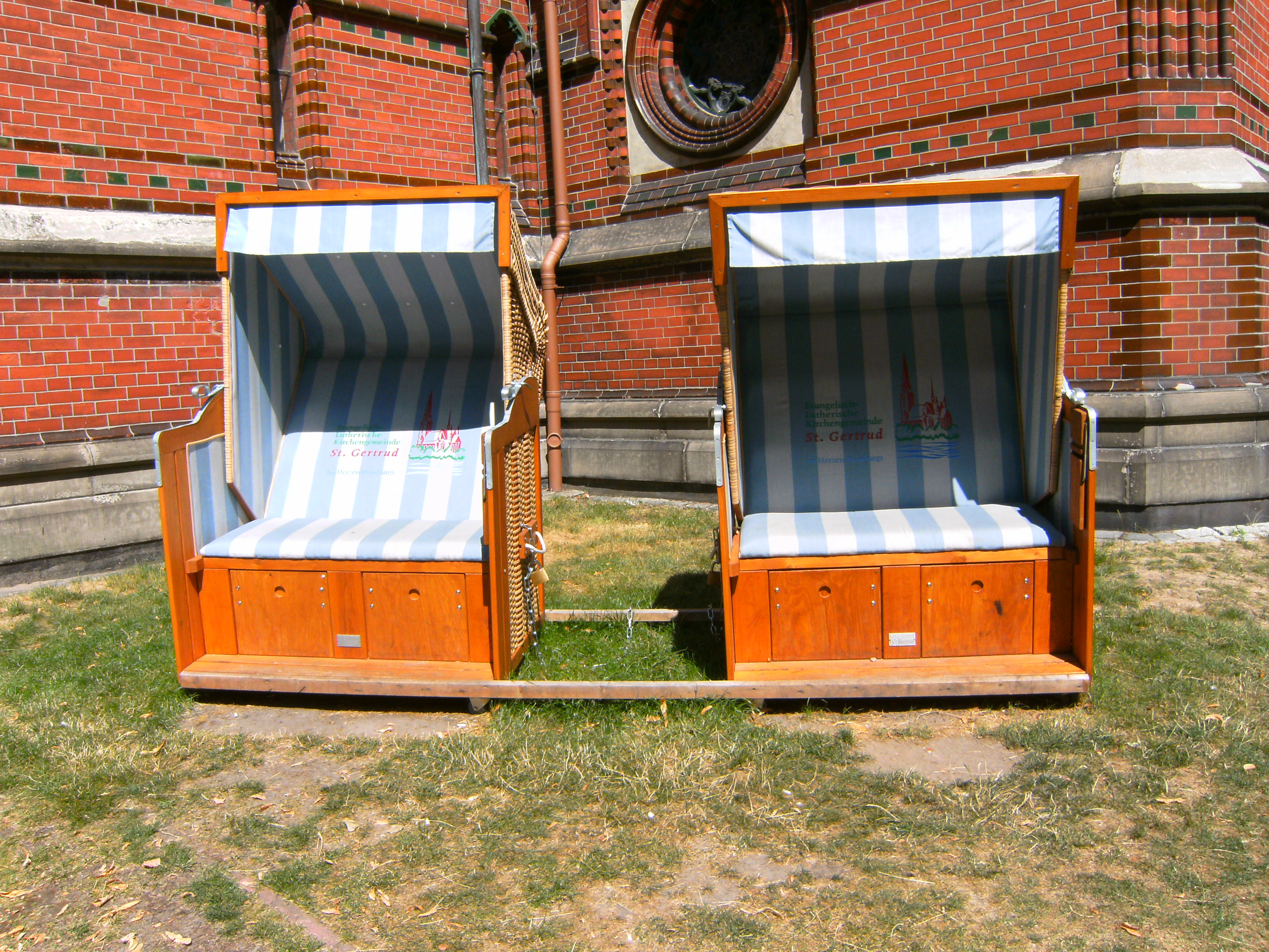 Hamburg-Uhlenhorst, Germany, Lutheran church St. Gertrud: beach chair for visitors.